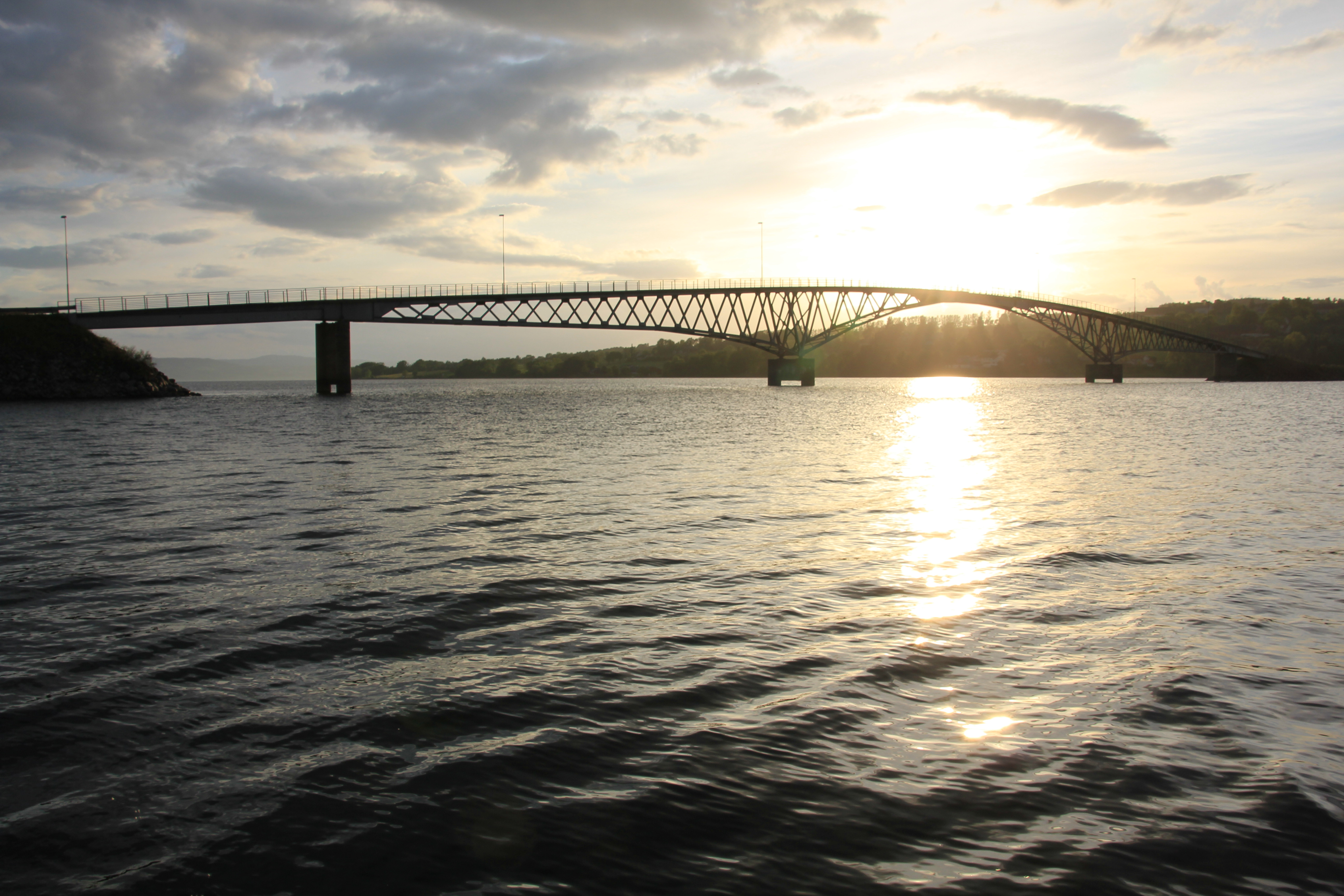 The bridge from Helgøya to Nes, across Lake Mjøsa, Norway.